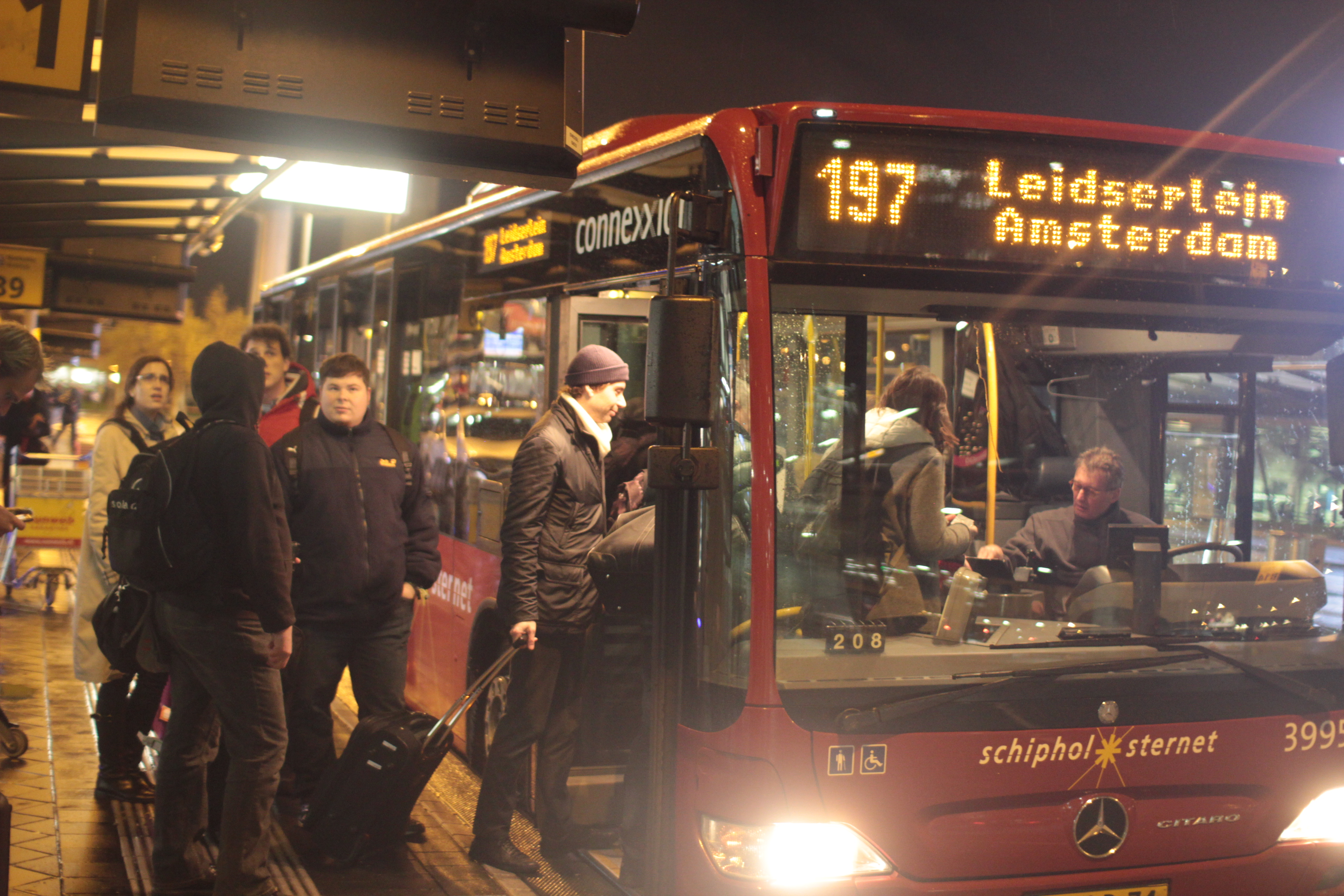 Bus 197 to Leidseplein at the Schiphol bus station